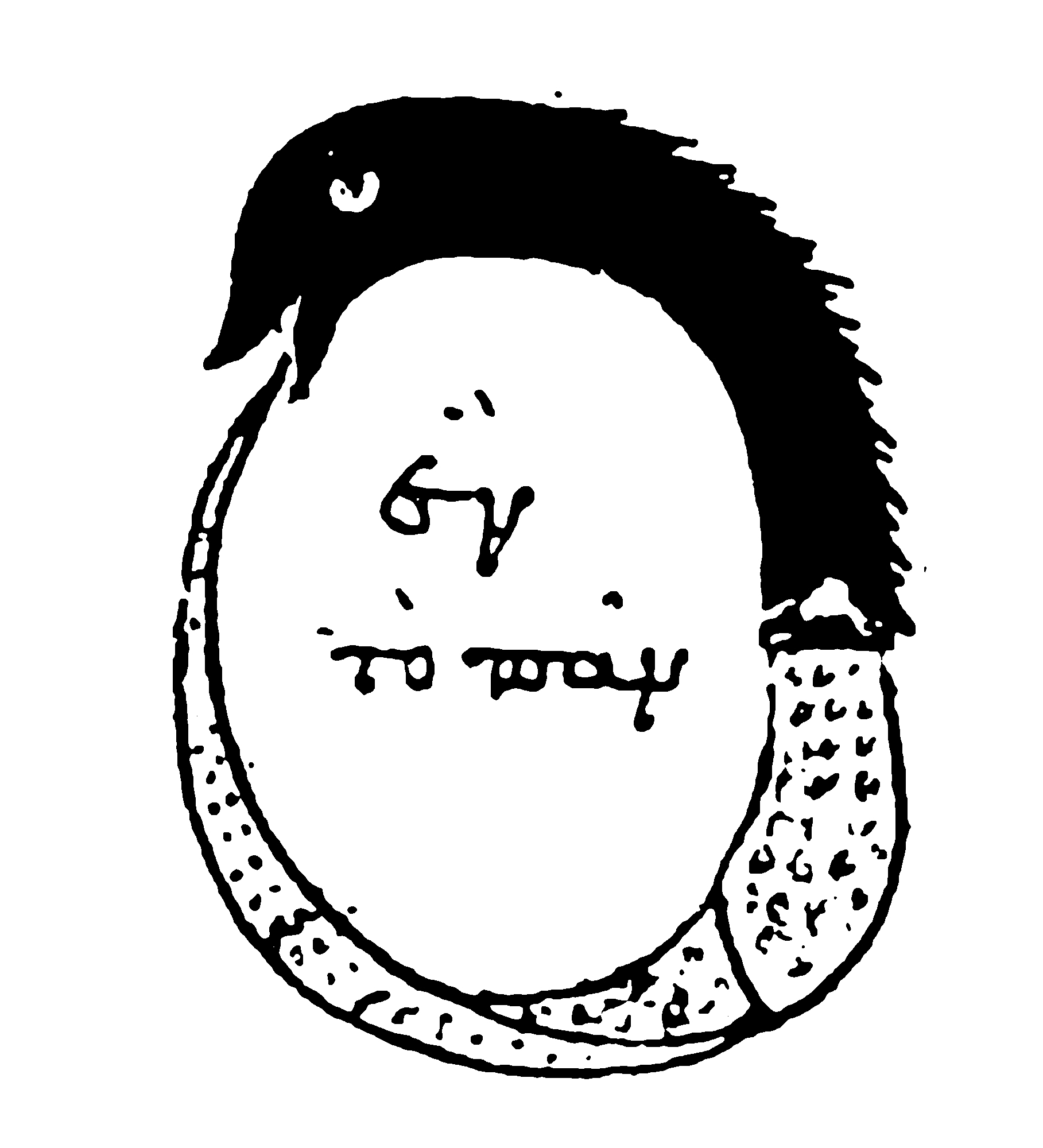 Chrysopoea of Cleopatra